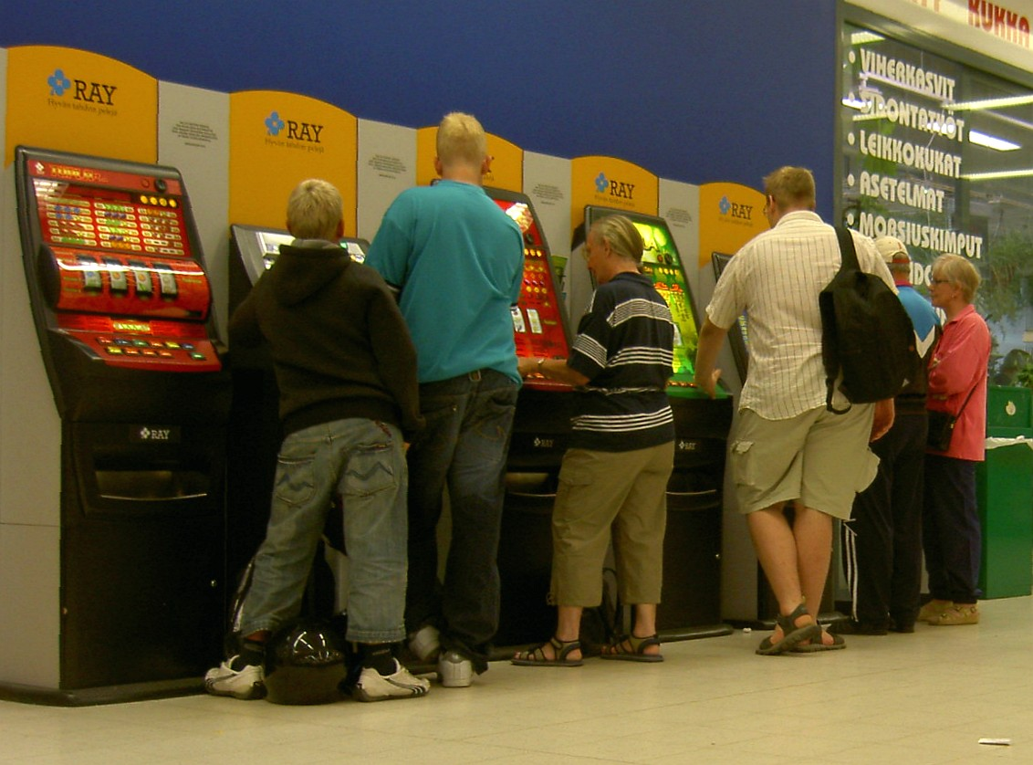 Slot machine player in a Finnish supermarket photo made on 13-8-2006 by Paul Lenz = --Plenz 13:47, 13 August 2006 (UTC)